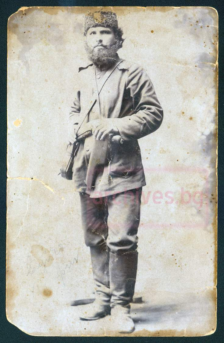 Georgi Drashkov from Hrupishta in MAVC